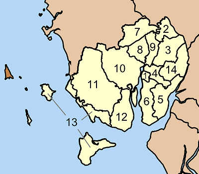 Map of Kantang district, Trang province, Thailand, with the communes (tambon) numbered. Kantang (กันตัง) Khuan Thani (ควนธานี) Bang Mak (บางหมาก) Bang Pao (บางเป้า) Wangwon (วังวน) Kantang Tai (กันตังใต้) Khok Yang (โคกยาง) Khlong Lu (คลองลุ) Yansue (ย่านซื่อ) Bonamron (บ่อน้ำร้อน) Bang Sak (บางสัก) Na Kluea (นาเกลือ) Ko Li Bong (เกาะลิบง) Khlong Chilom (คลองชีล้อม)